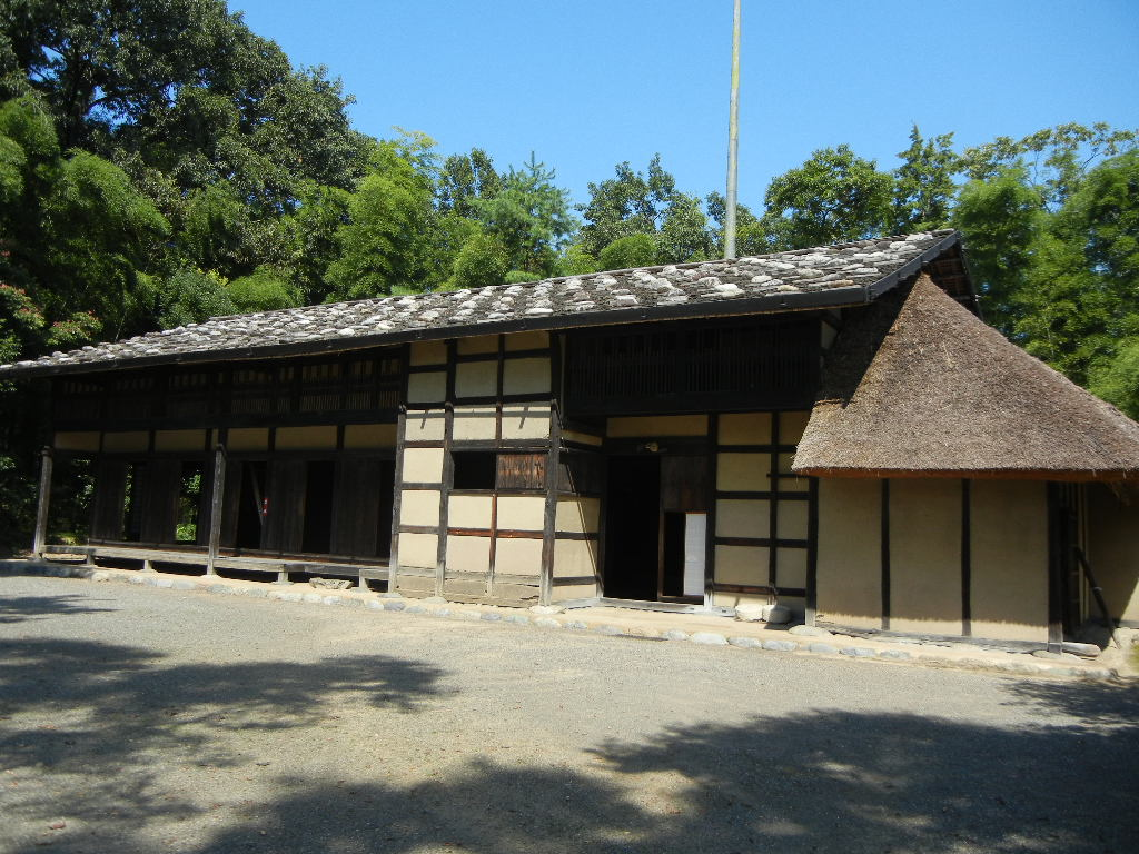 Old-Arai-House. 埼玉県長瀞町にある「旧新井家住宅」, Nagatoro.